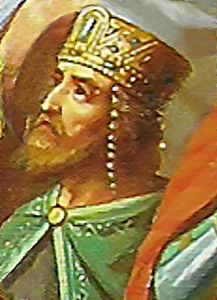 Demetre II of Georgia